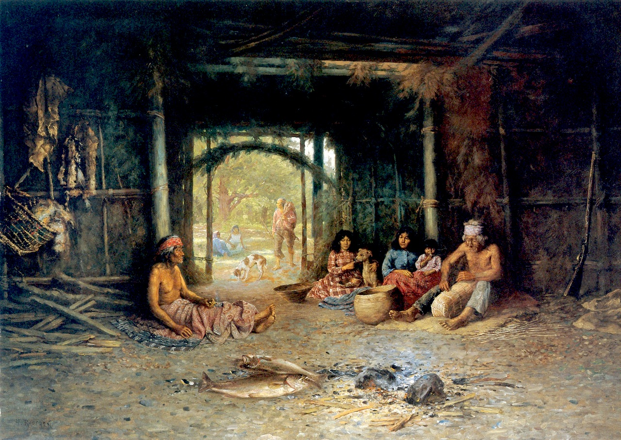 Interior of a Pomo Dwelling